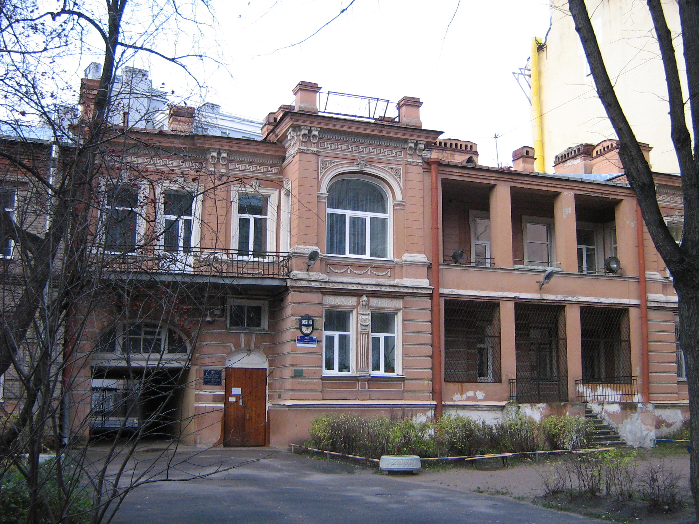 Professora Popova street, 31a. St-Petersburg. Architect: Pavel Rezvy. 1905.